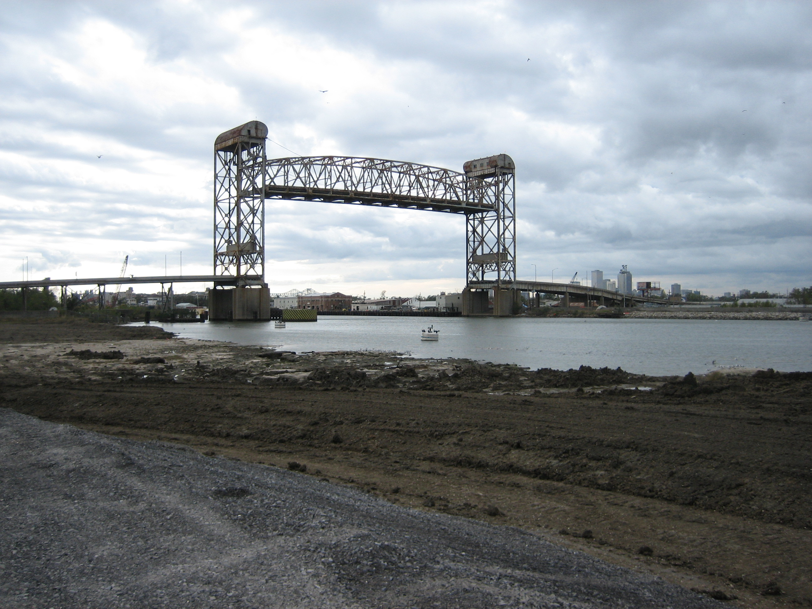 New Orleans after Hurricane Katrina: View towards Claiborne Avenue Bridge (still not reopend at the time) from near the south end of the Inner breach of the Industrial Canal levee, Lower 9th Ward.